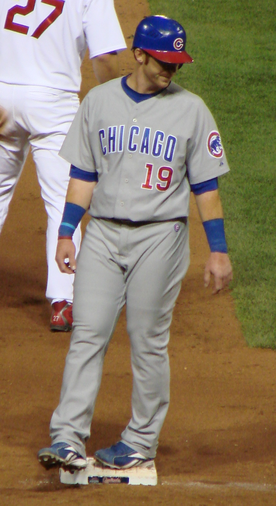 Matt Murton standing on third base for the Chicago Cubs on April 27, 2007. 19:52, 14 July 2007 . . Mshake3 . . 926×1693 (604 KB)